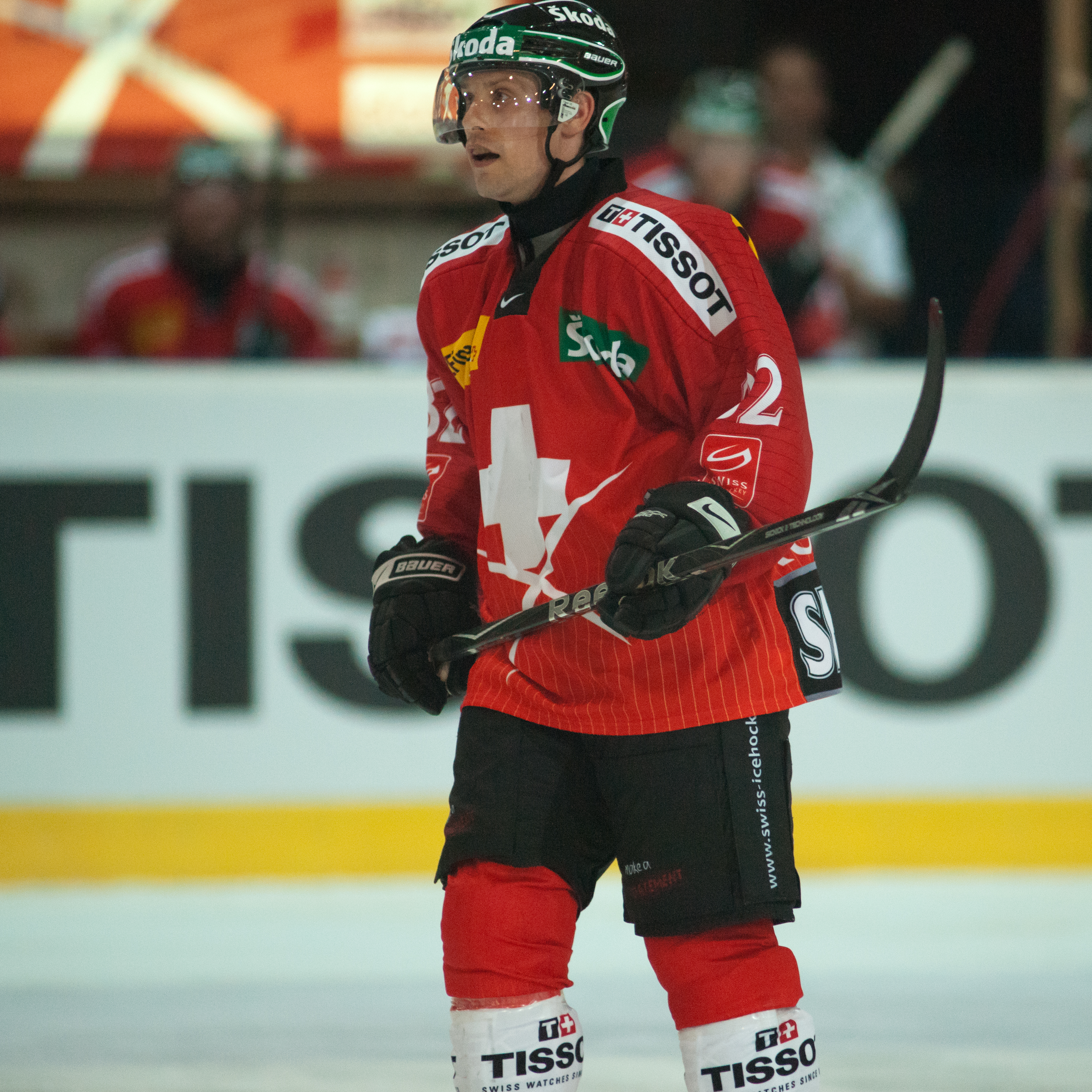 The making of this document was supported by Wikimedia CH. (Submit your project!) For all the files concerned, please see the category Supported by Wikimedia CH. Switzerland vs. Russia, 8th April 2011